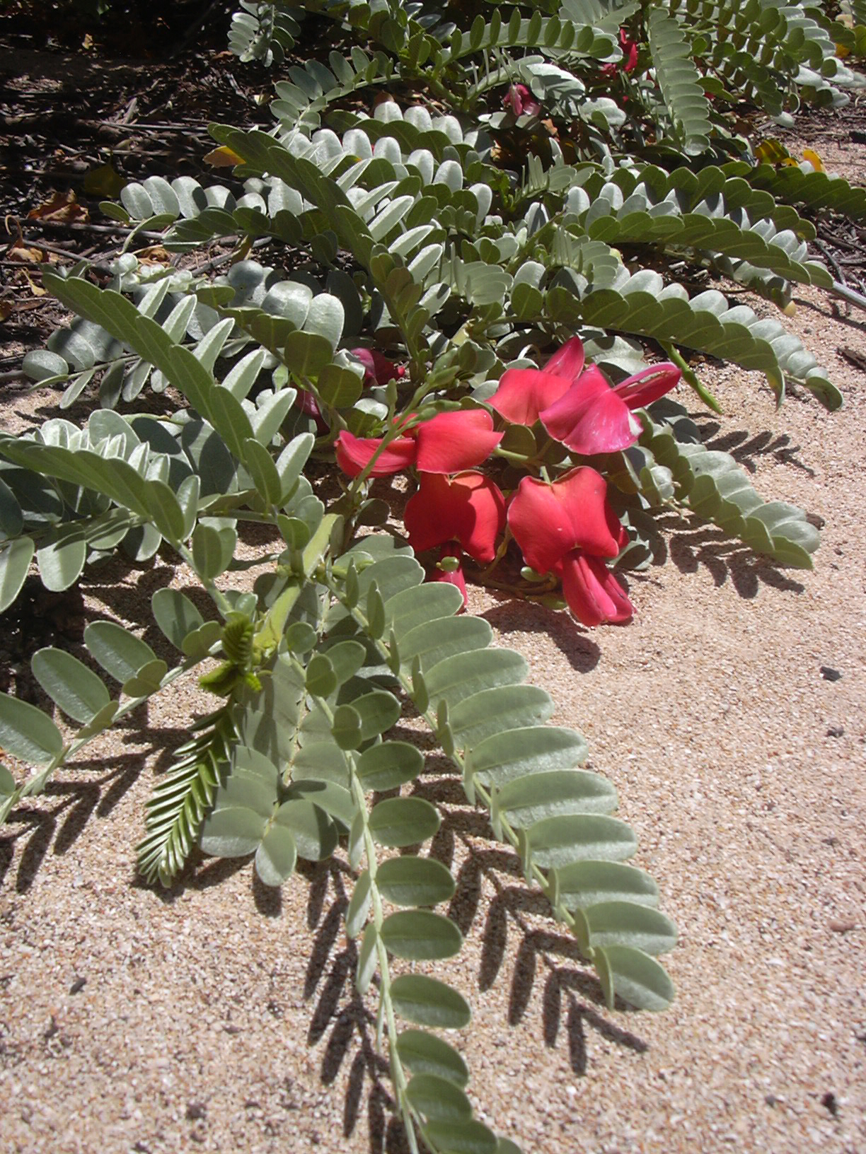 Sesbania tomentosa (flowers). Location: Maui, Kanaha Beach